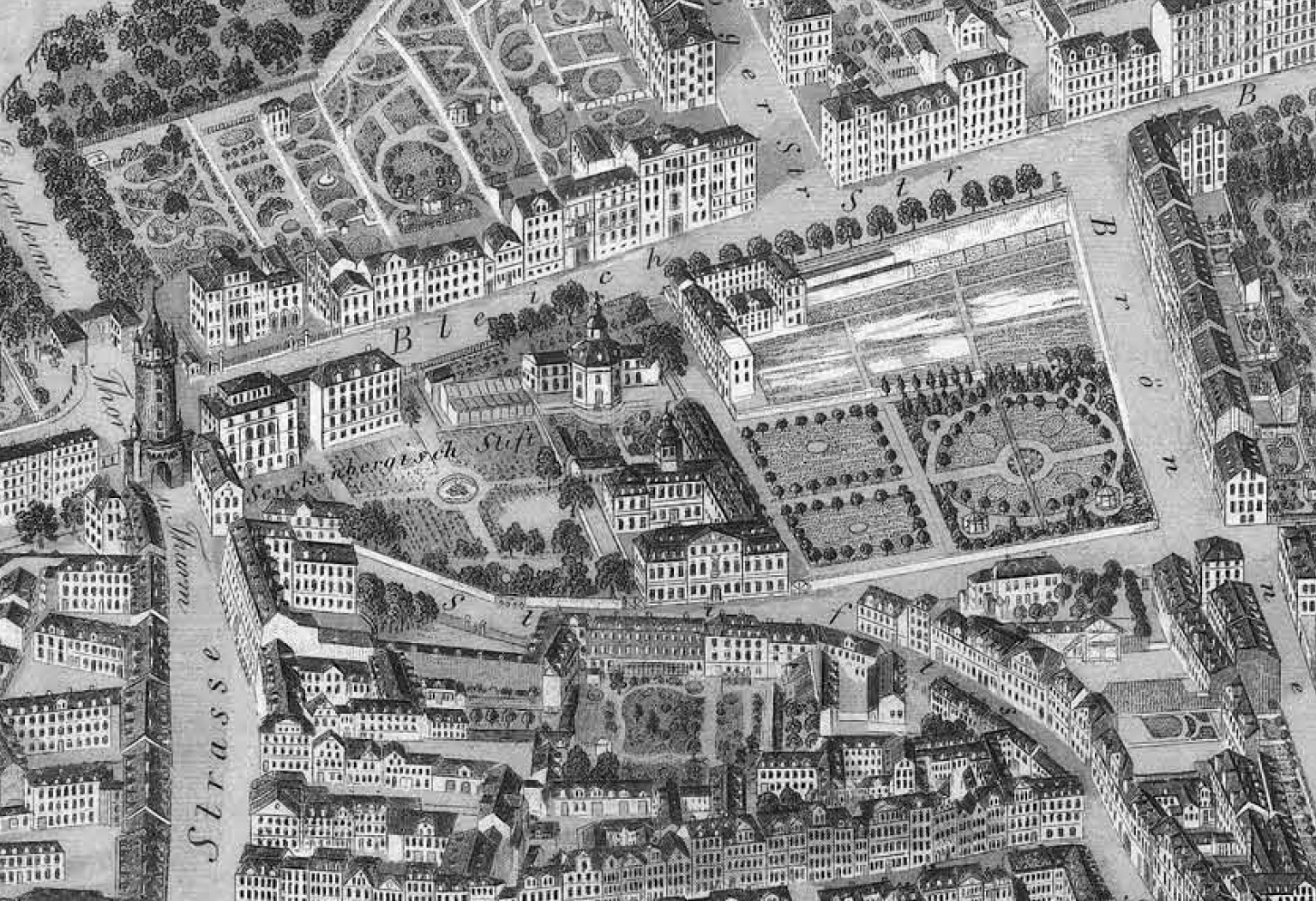 Details of the map of the city of Frankfurt am Main, Germany. In the center: Dr. Senckenbergische Stiftung